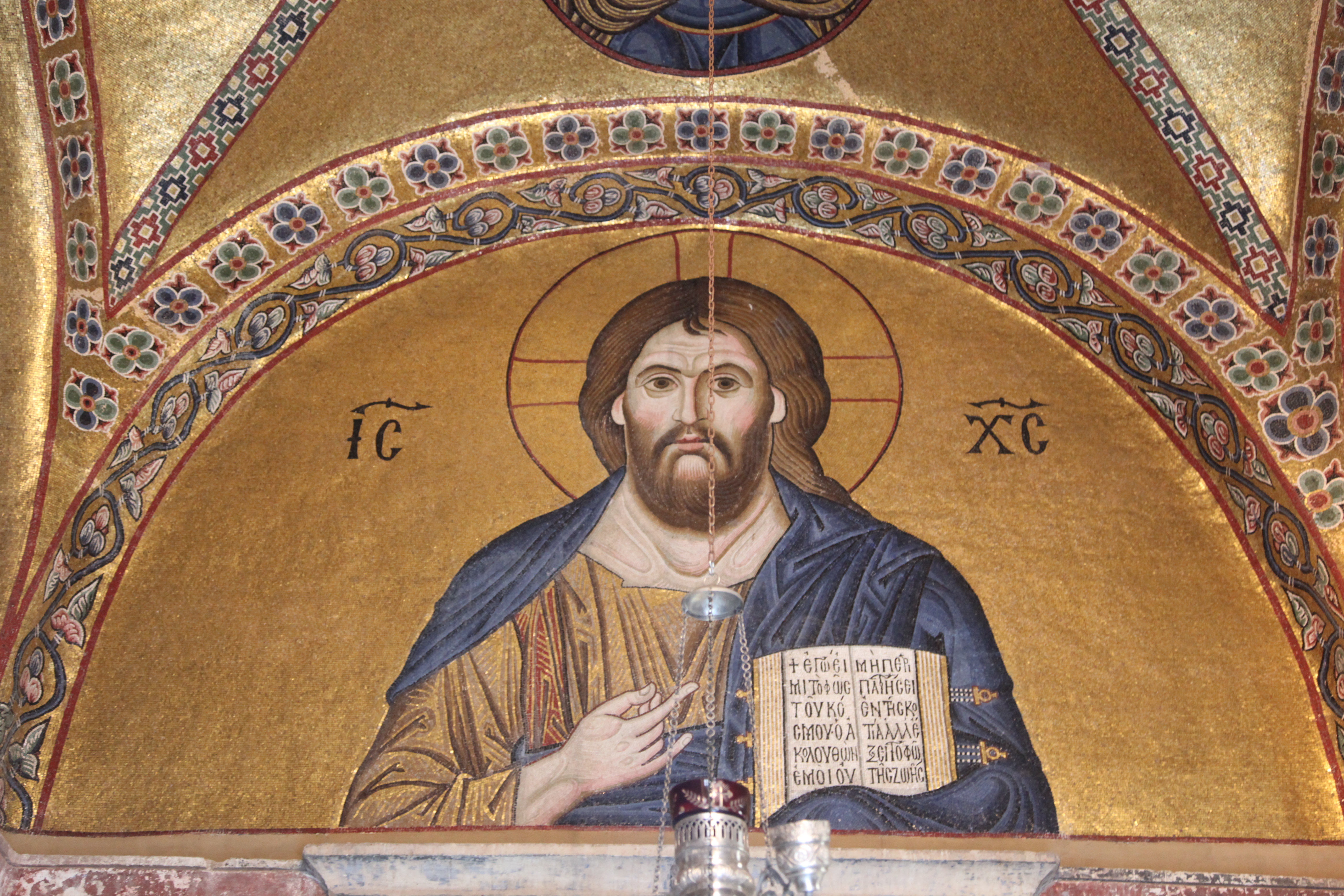 Monastery of Hosios Loukas